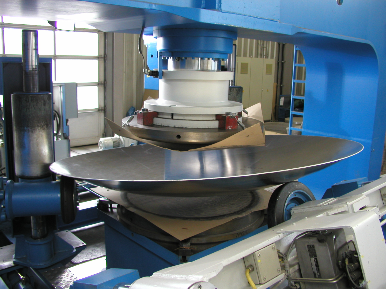 Freeforming machine. Own work, 13th July 2006, Borowski